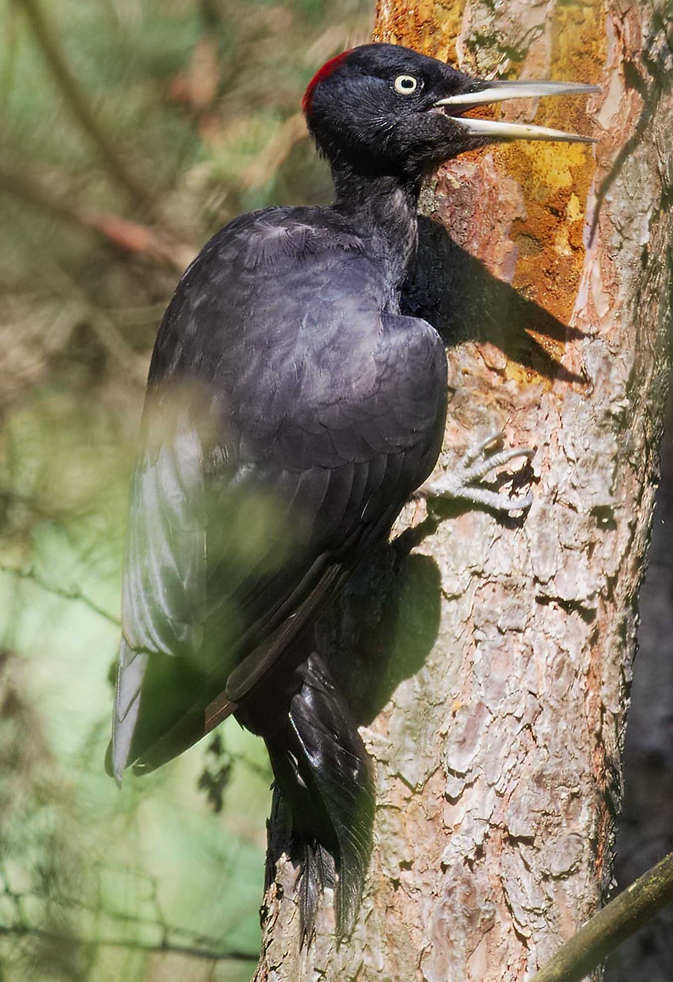 Black woodpecker - Dryocopus martius, female. Taken in the Viernheimer Heide in Viernheim, Hesse, Germany.